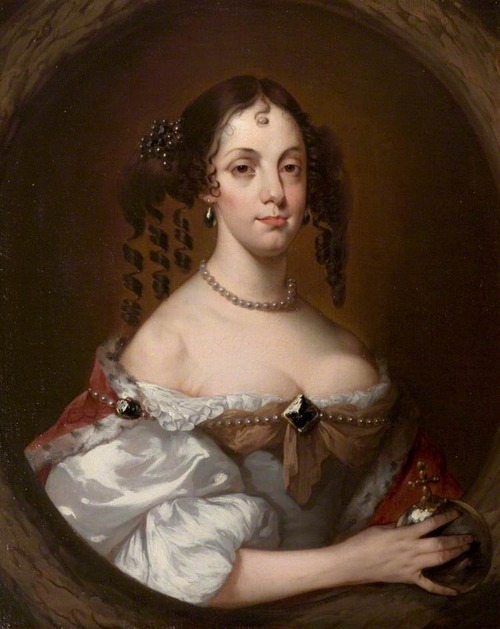 Catherine of Braganza, queen of England